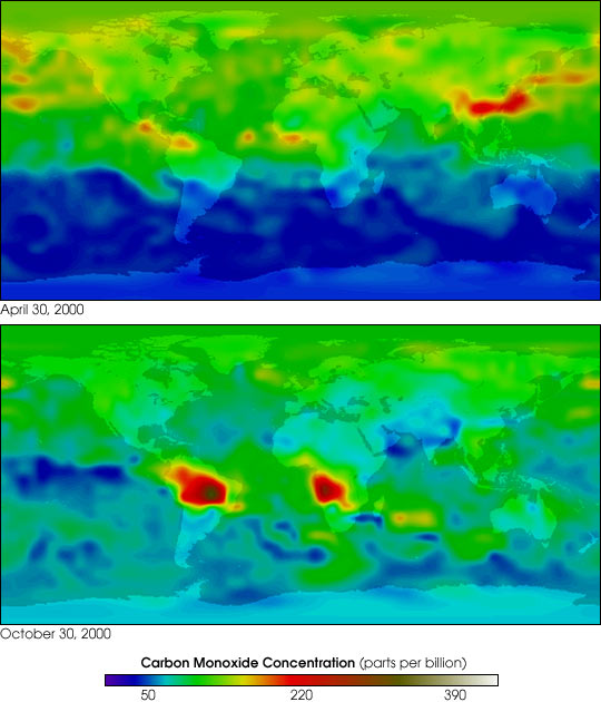 The MOPITT sensor aboard NASA’s Terra satellite has assembled the first view of carbon monoxide in the Earth's atmosphere. The false colors represent levels of carbon monoxide in the lower atmosphere, ranging from about 390 parts per billion (dark brown pixels), to 220 parts per billion (red pixels), to 50 parts per billion (blue pixels).